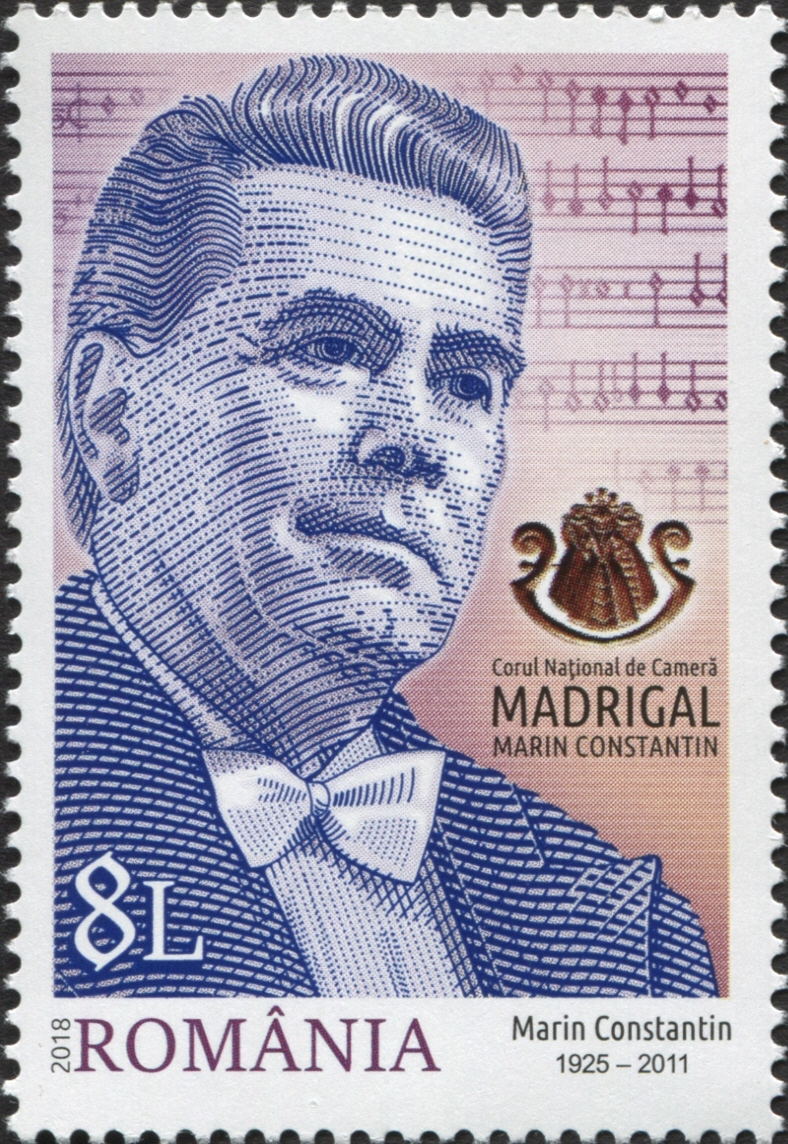 Madrigal Choir, 55 years - Marin Constantin, founder and mentor